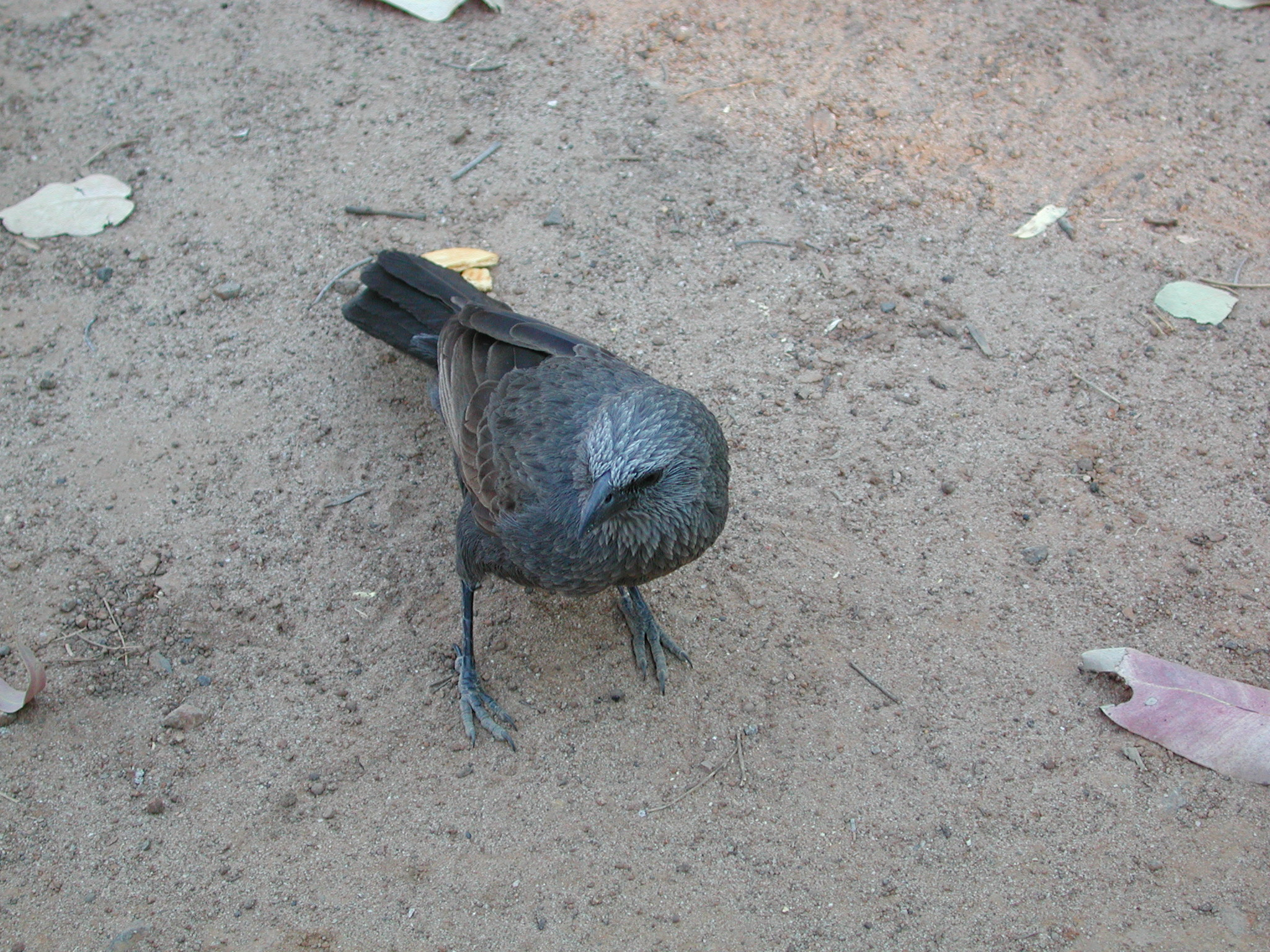 Apostlebird - Struthidea_cinerea, Carnarvon National Park, Queensland, Australia